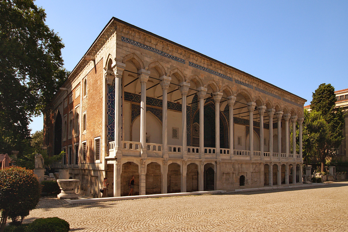 Facade of Tiled Kiosk